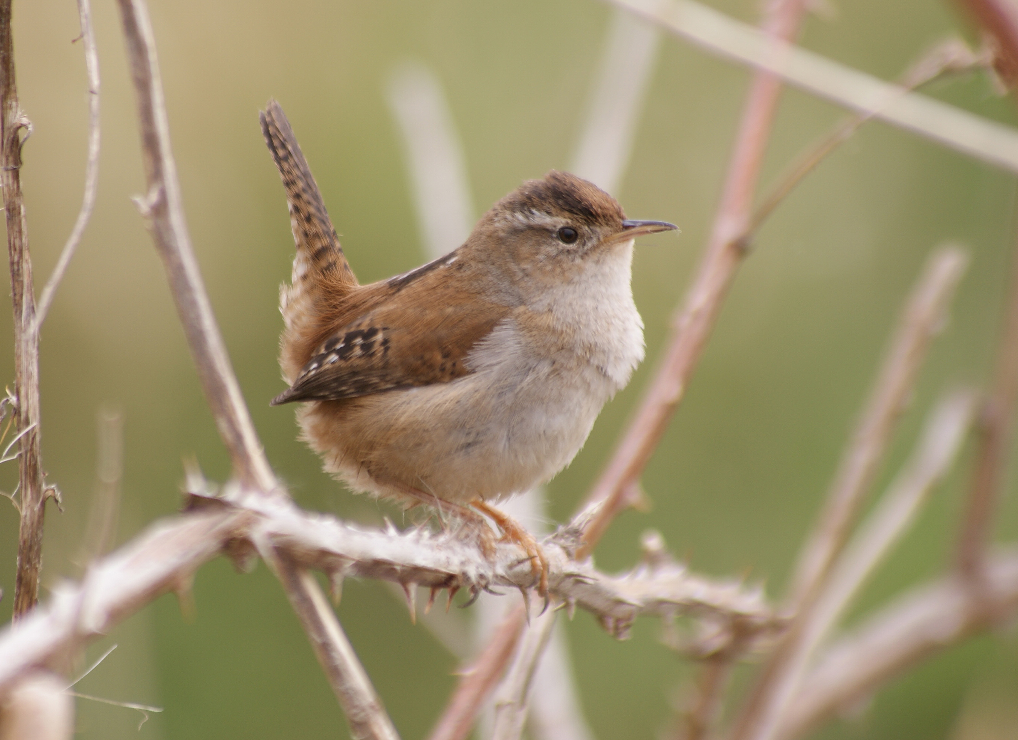 A Marsh Wren on Reifel Island, Vancouver, Canada.